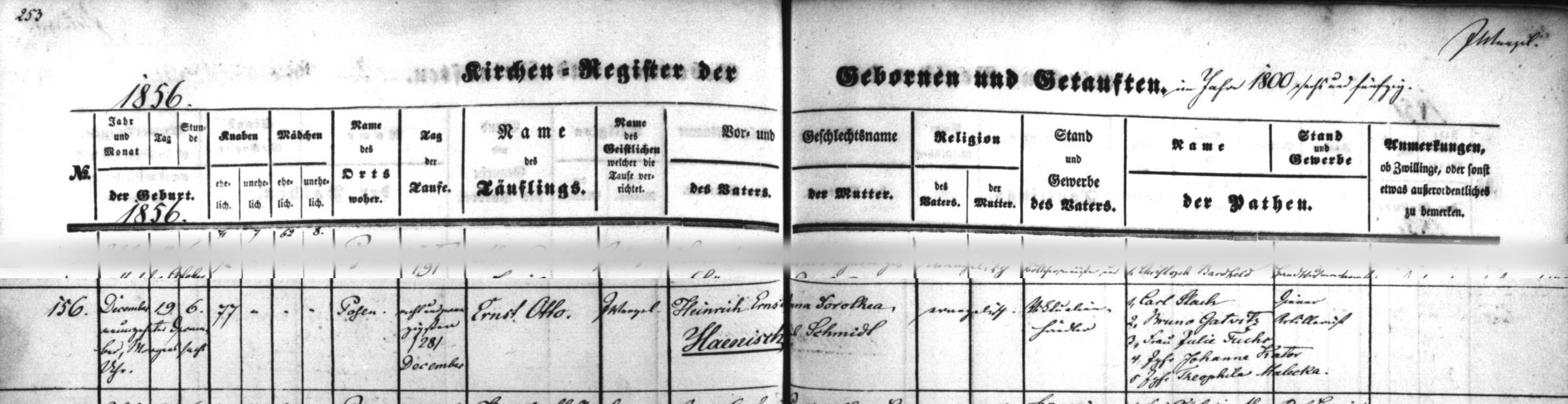 Copy from the baptism records of protestant St. Petri Chirch at Posen